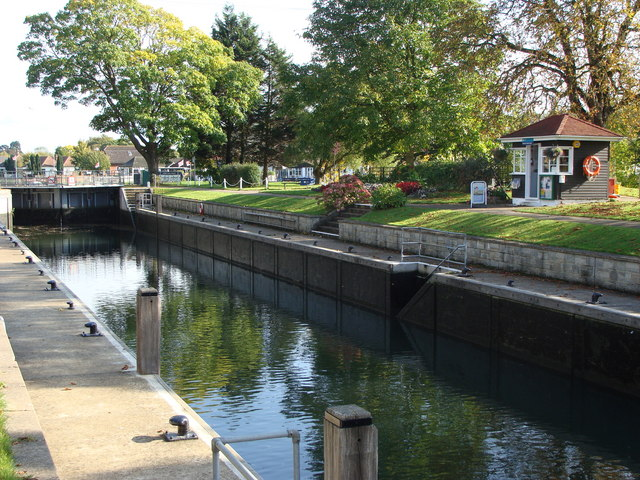 Penton Hook Lock on a beautiful Autumn day